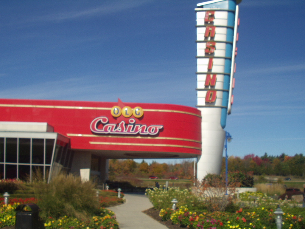 OLG Casino Thousland Islands, formerly Thousland Islands Charity Casino.